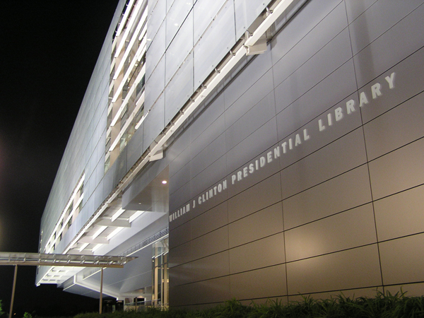 William J. Clinton Presidential Library, Little Rock, Arkansas, Photograph taken by Melissa Gasser Myers in May 2005